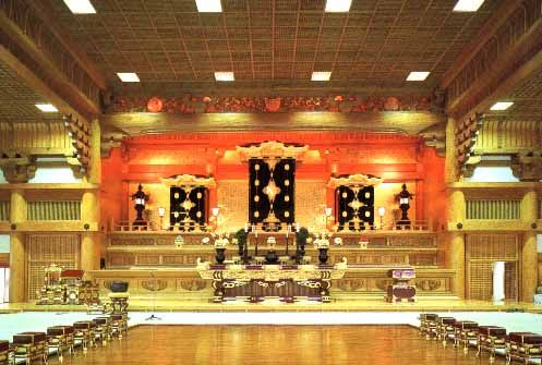 The Altar of Ogazawari in Dai Kyakuden. Where the Gohonzon of Nikko Shonin is enshrined